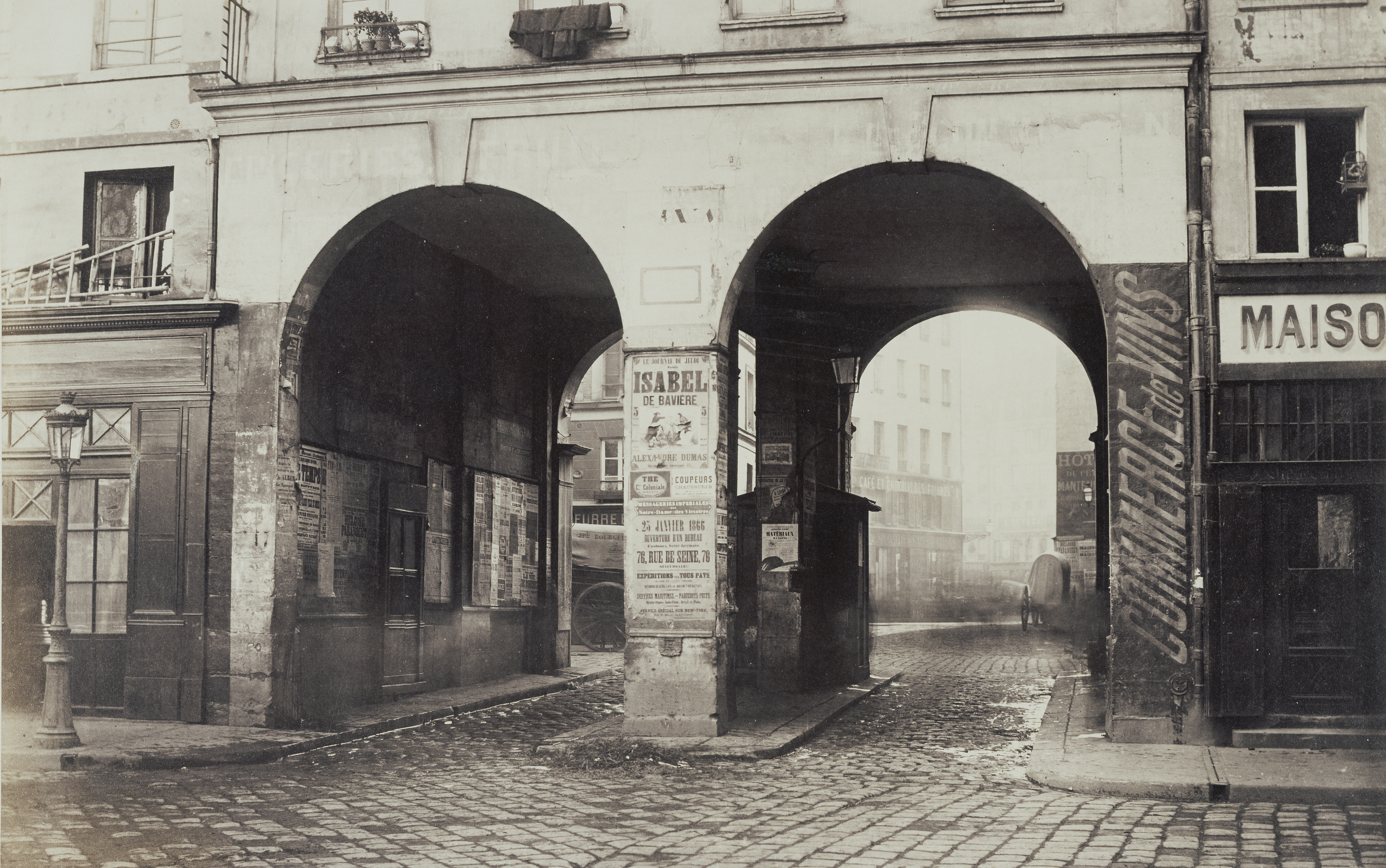 The twin arches connecting one side of an old market to a parallel street are pasted with advertisements and playbills. This neighborhood was slated for demolition, according to the plans of Baron Haussmann, who oversaw the restructuring of Paris's principal boulevards and streets. Because this block would soon undergo destruction, it became a subject for Charles Marville's documentation of the changes wrought by urban renewal.